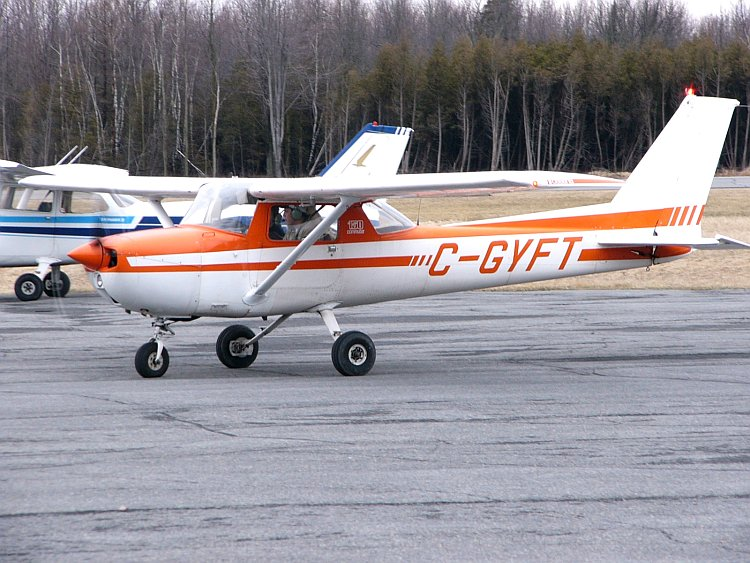 Cessna 150M C-GYFT. I took this photo at Cornwall ON.